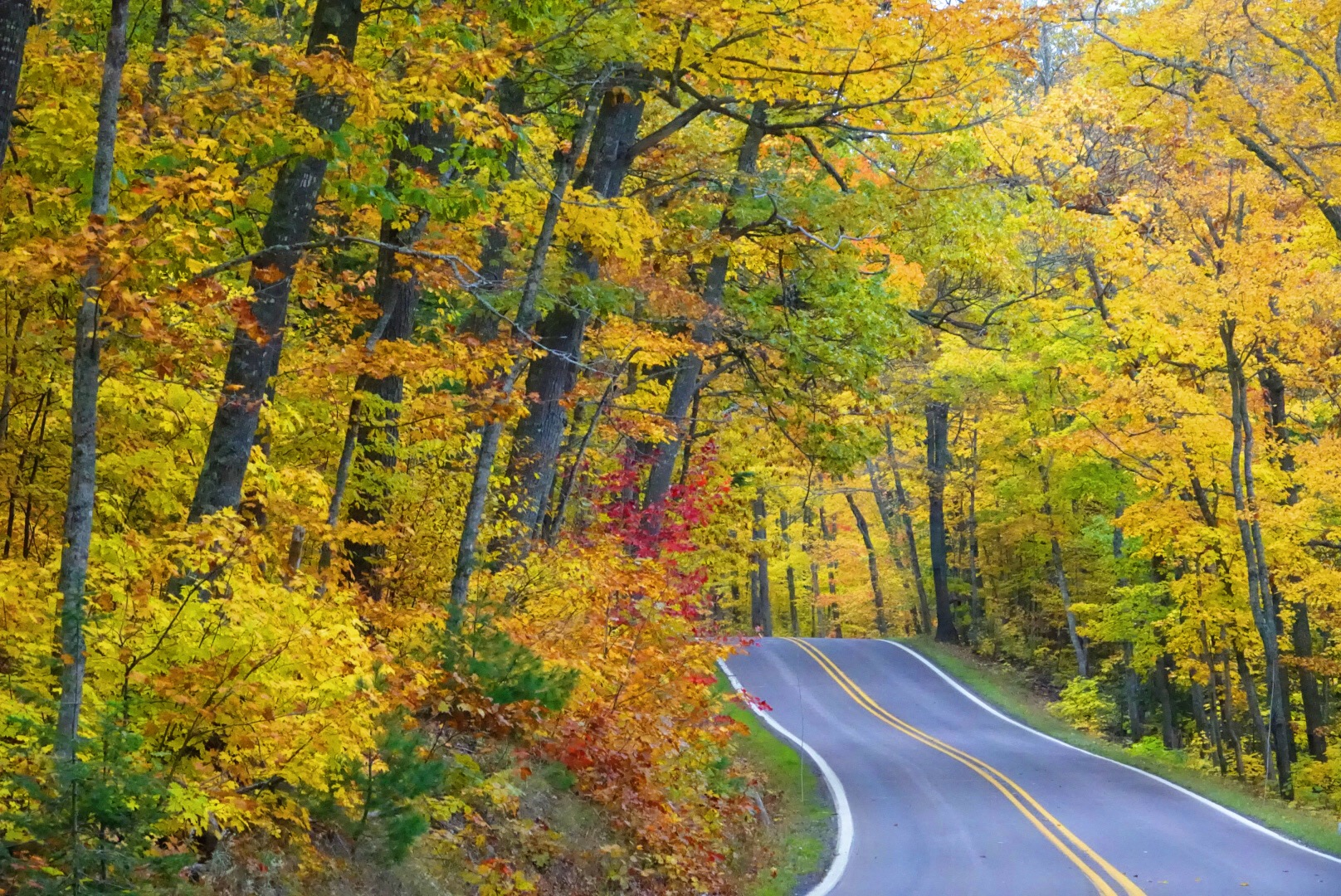 This photo was taken at October 2016 at at Upper Peninsula of Michigan.